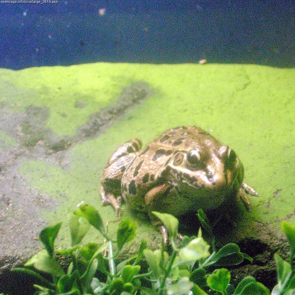 ダルマガエル Daruma pond frog Species Rana porosa Familia Ranidae Location Himeji City Aquarium, Hyogo, Japan Other photos; Copyright OpenCage